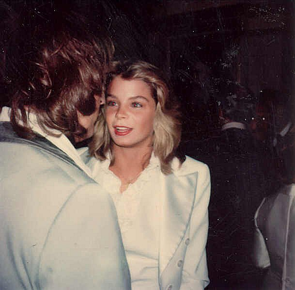 Kristine DeBell at the premiere of the movie A Star is Born in Westwood, Los Angeles, CA on December 18, 1976